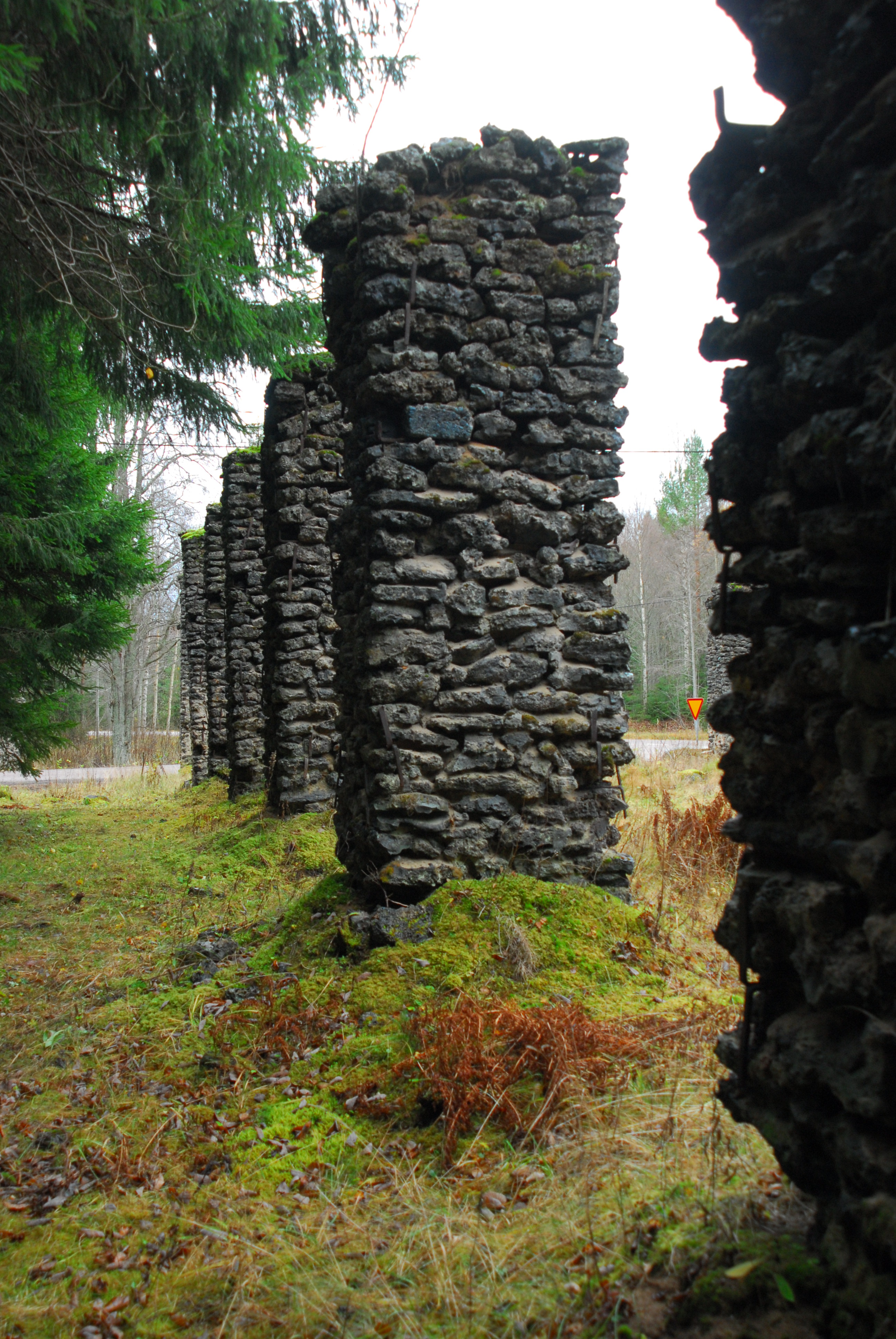 Remains of Brattfors iron works outside Garpenberg, Hedemora municipality, Sweden